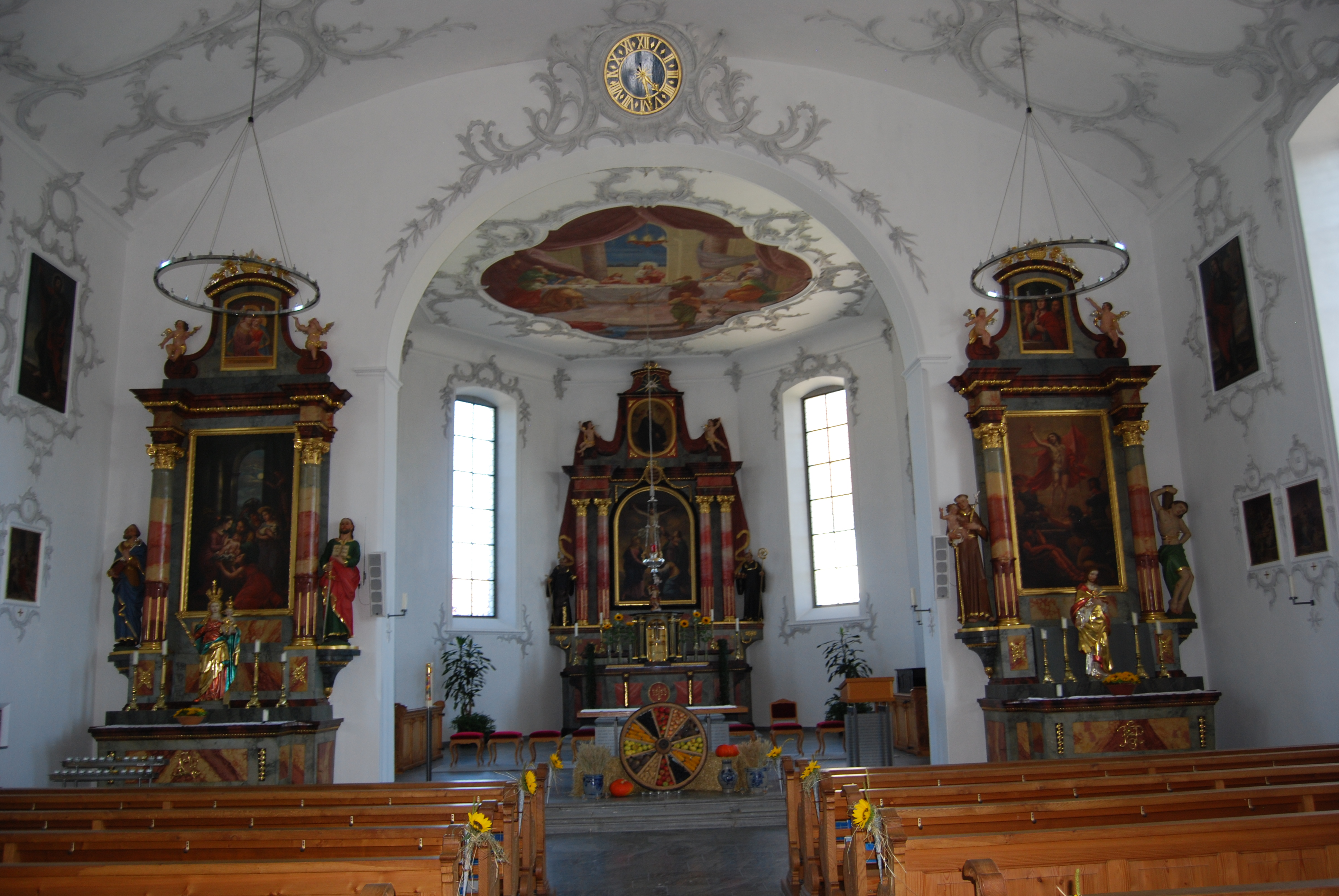 Church of Häggenschwil, canton of St. Gallen, Switzerland